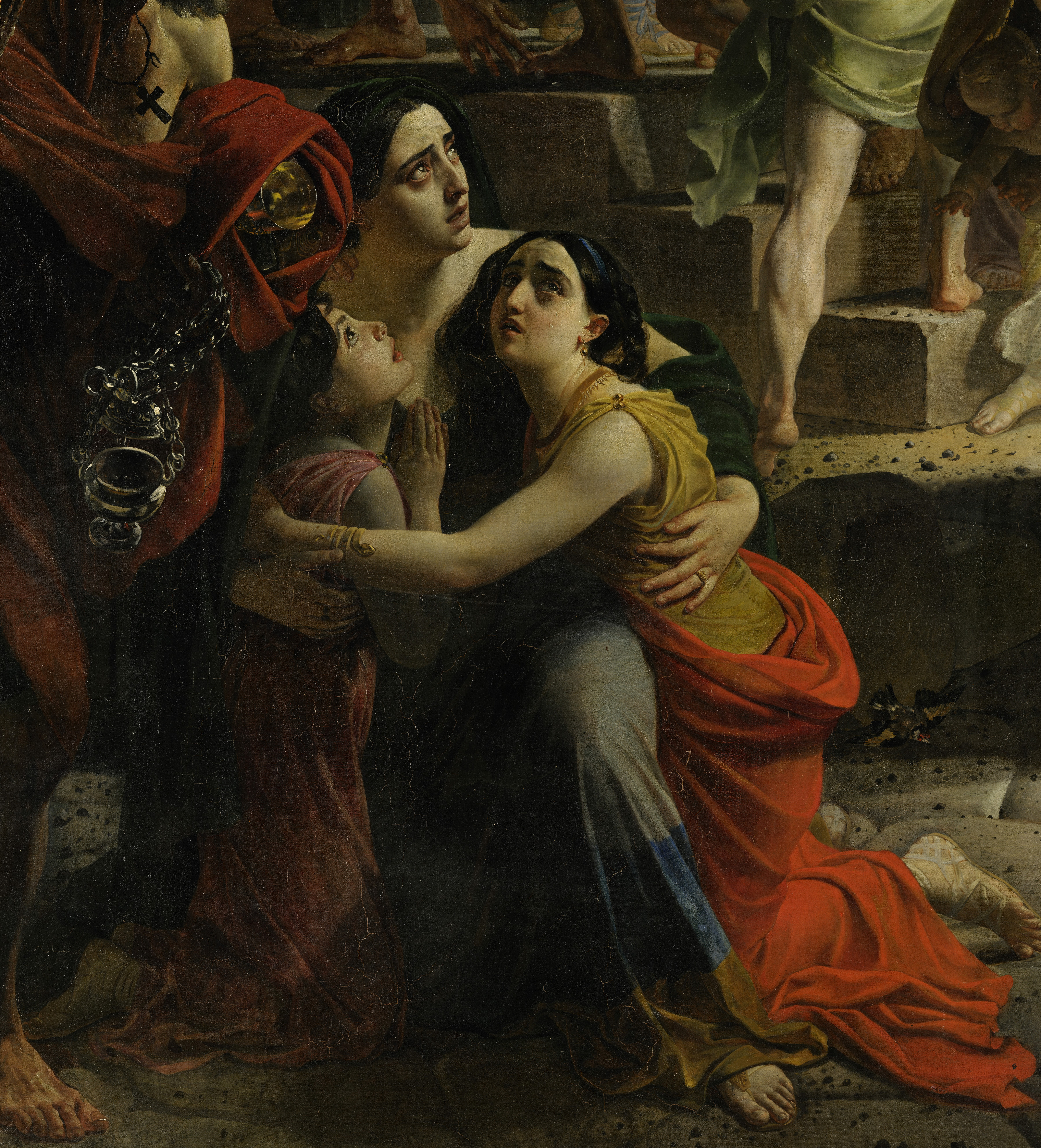 Detail of "The last day of Pompeii" (by Karl Bryullov, 1833, Russian Museum)